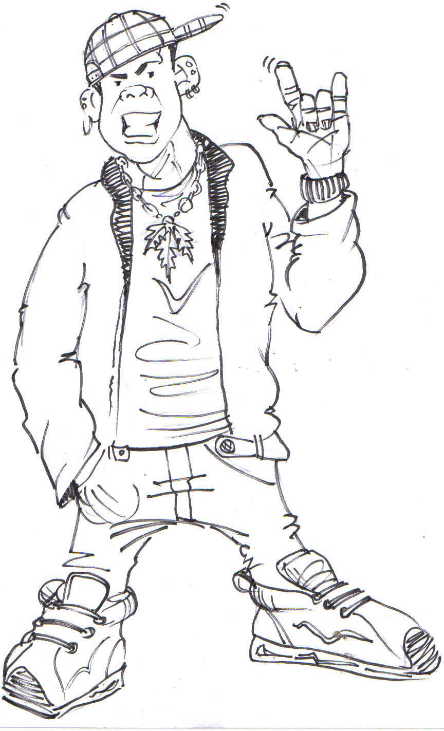 you see this guy just about everywhere , baggy pants, cheap garish bling bling jewelry, burberry tartan and over engineered footwear- then just wait till he opens his mouth!